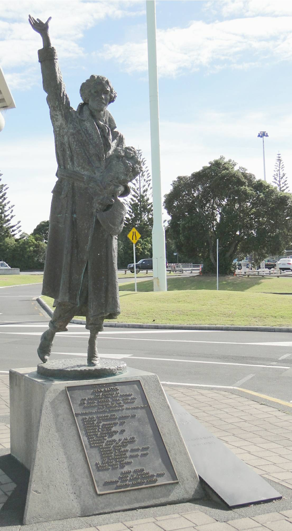 Statue of Jean Batten at Auckland International airport, April 2010